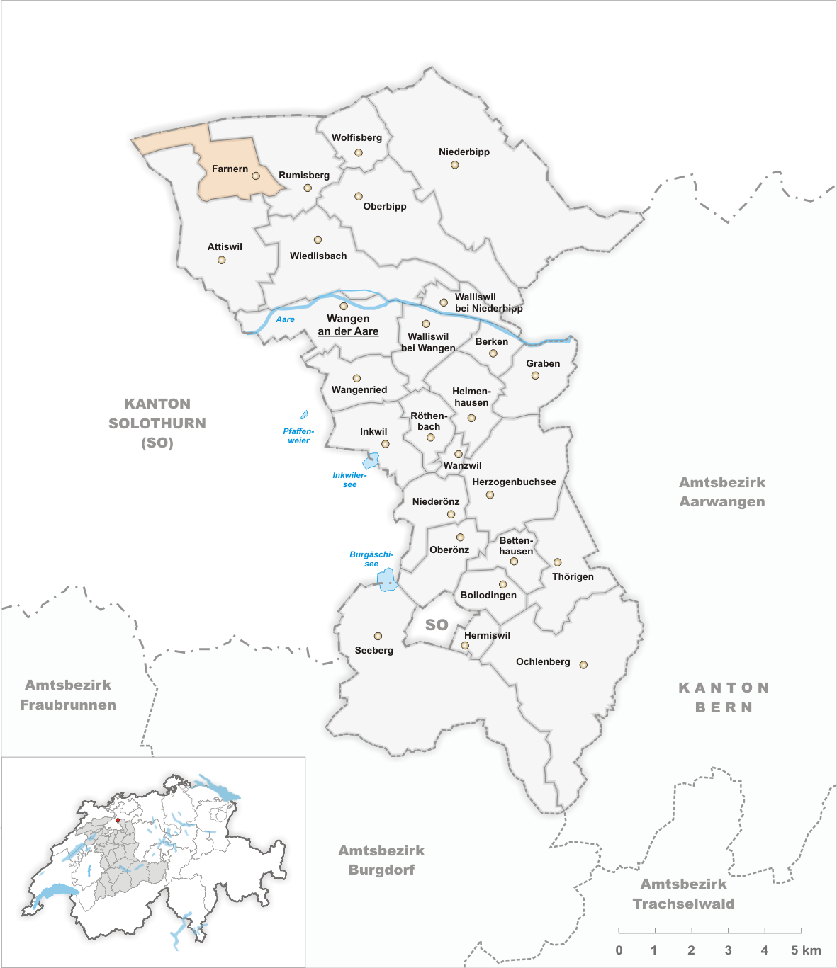 Municipality Farnern